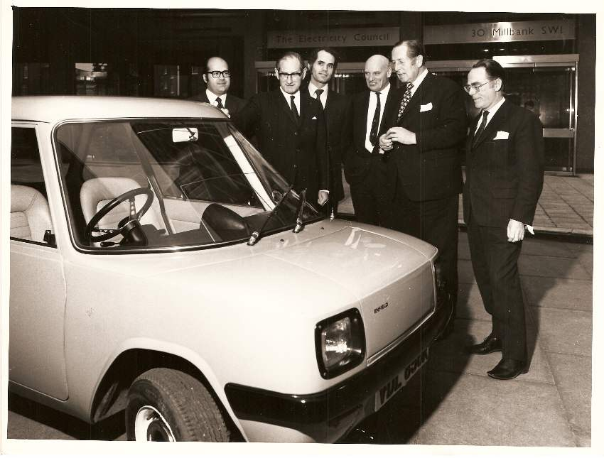 From the Electricity Council, Enfield Automotive and Constantine Adraktas archives. The Chairman of the Electricity Council and other EC Board members on the date of signing the contract for the E8000ECC